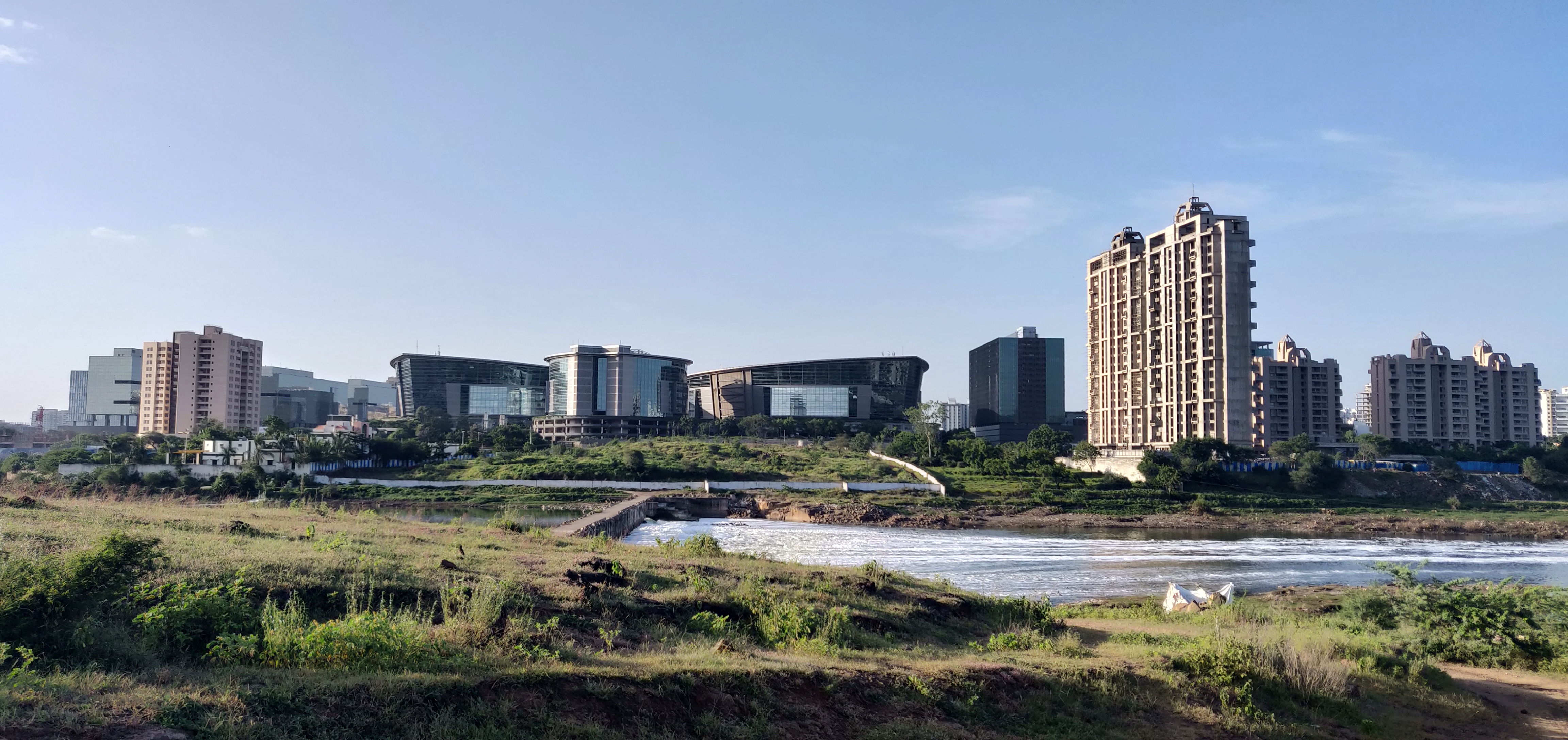 View of EON IT Park area and World Trade Center